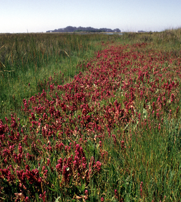 Castilleja ambigua ssp. humboldtiensis at Humboldt Bay National Wildlife Refuge Complex, California, USA